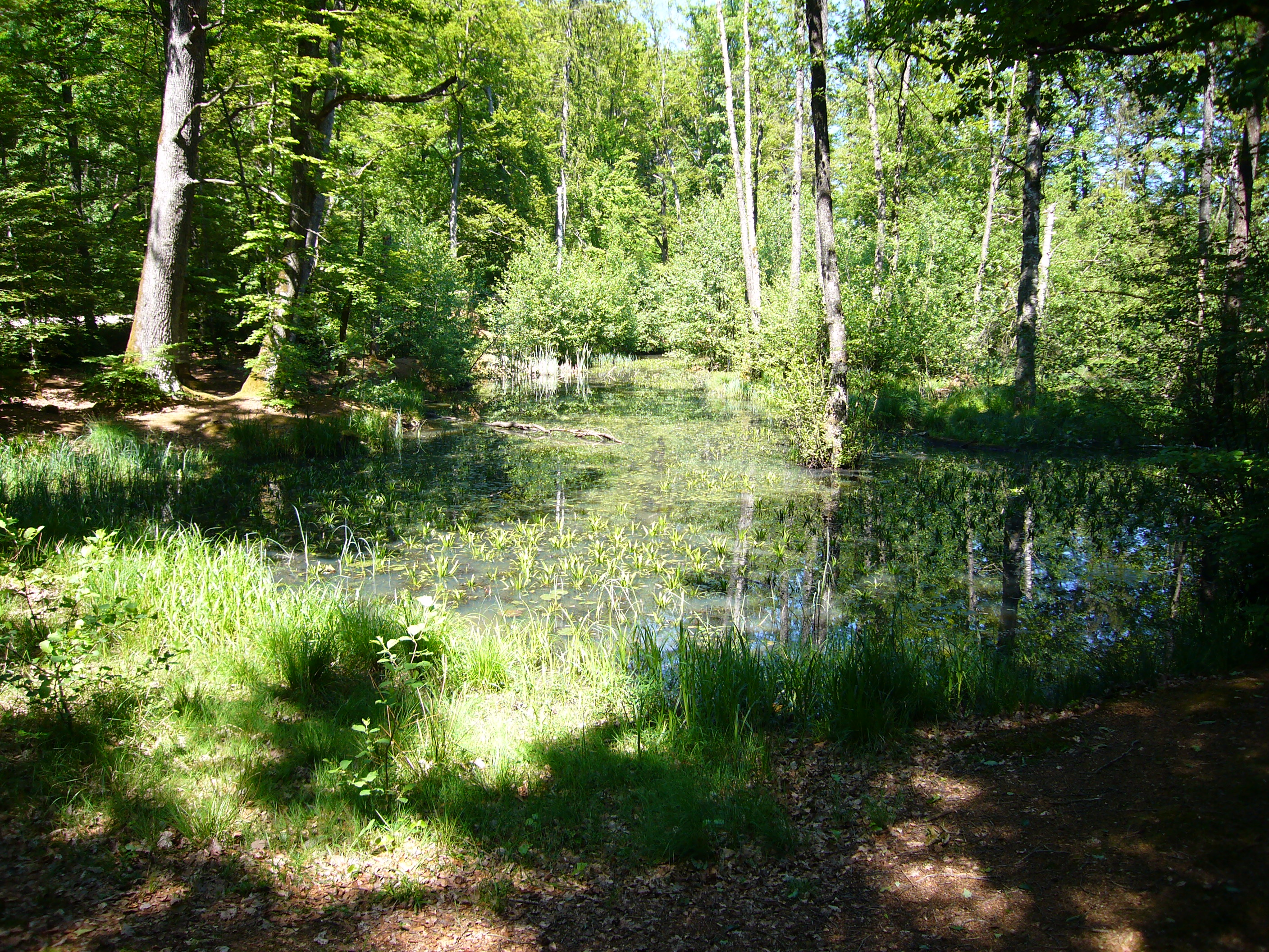 Wagnersgrube near Heidenheim, view in eastward direction